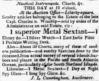 Newspaper item related to J.L. Cunningham, auctioneer, Boston, Massachusetts